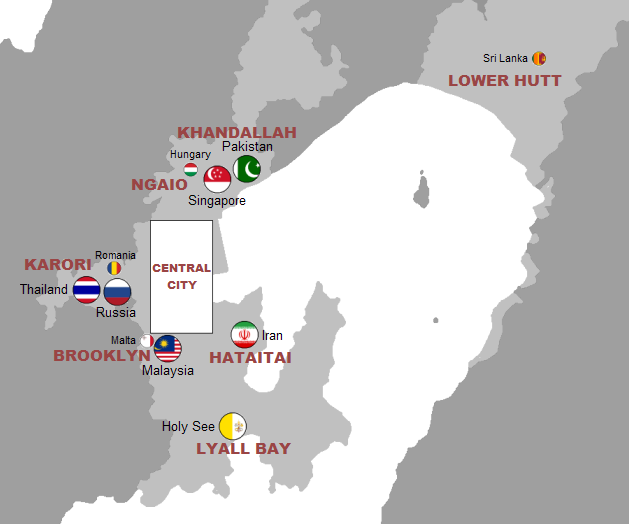 map locating embassies in the Wellington area, NZ